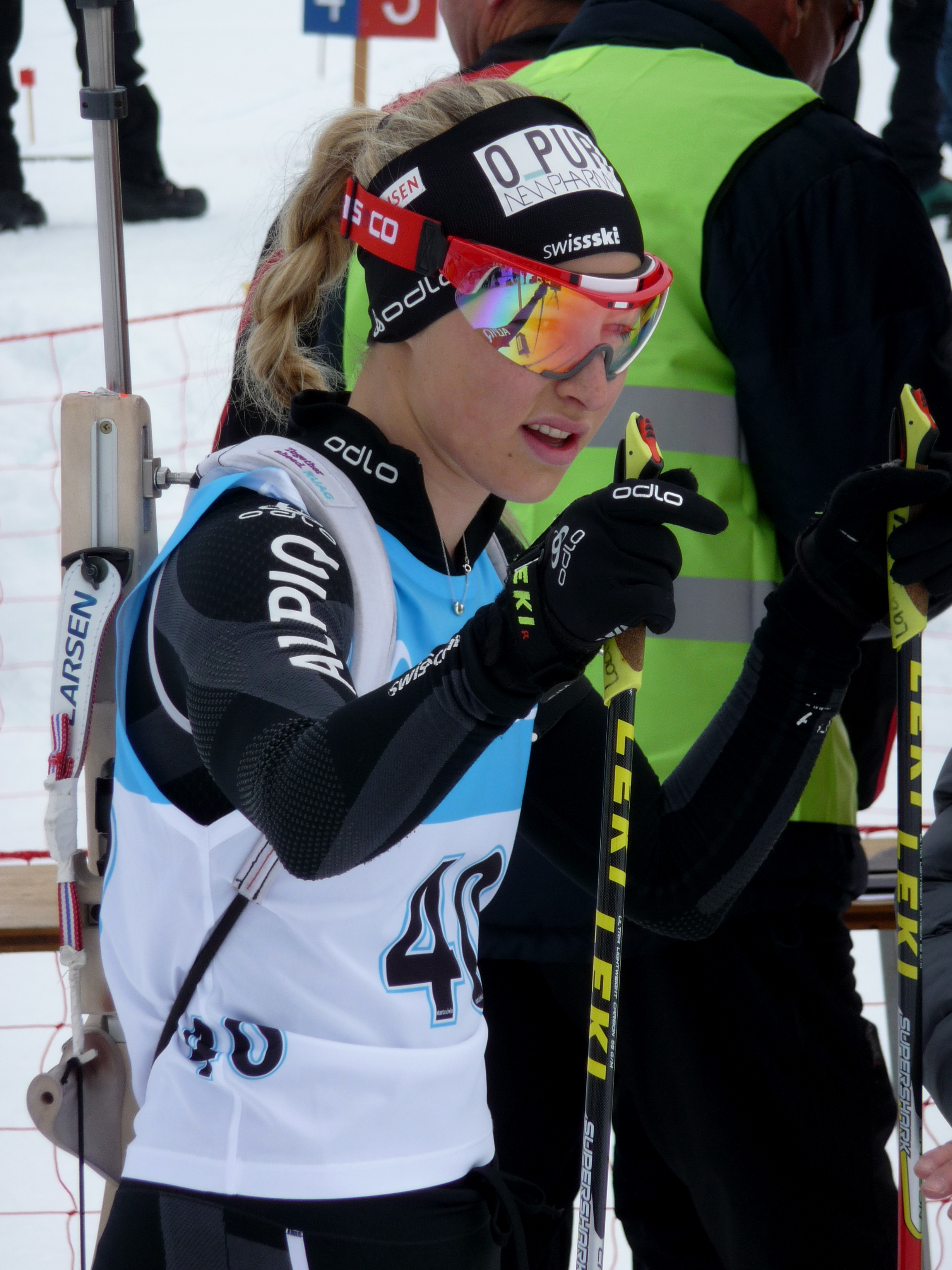 Swiss biathlete Ladina Meier-Ruge at National Championships in Biathlon 2013 (Sprint Race) in La Lécherette, Switzerland